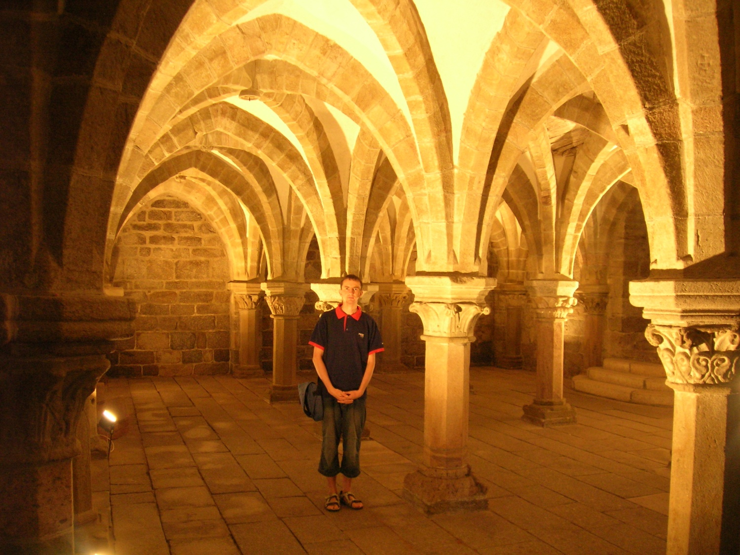 Třebíč-Podklášteří. St Procopius' Basilica. Undercroft